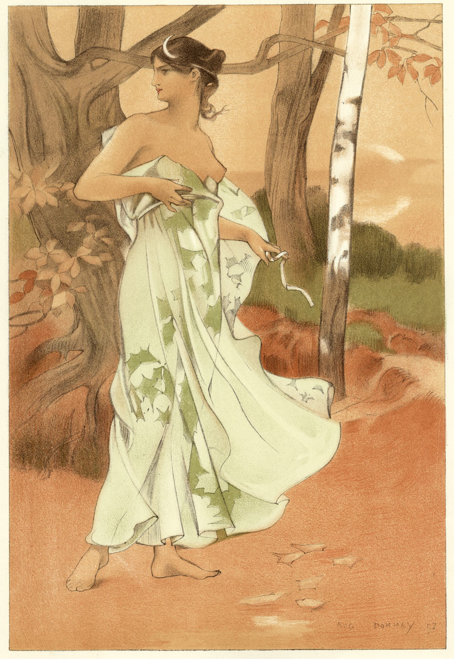 Artémis by Auguste Donnay, lithographic print for L'Estampe moderne, vol. 1, 1897, F. Champenois.